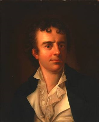 Portrait of Michael Rosing (1756-1818), Danish actor